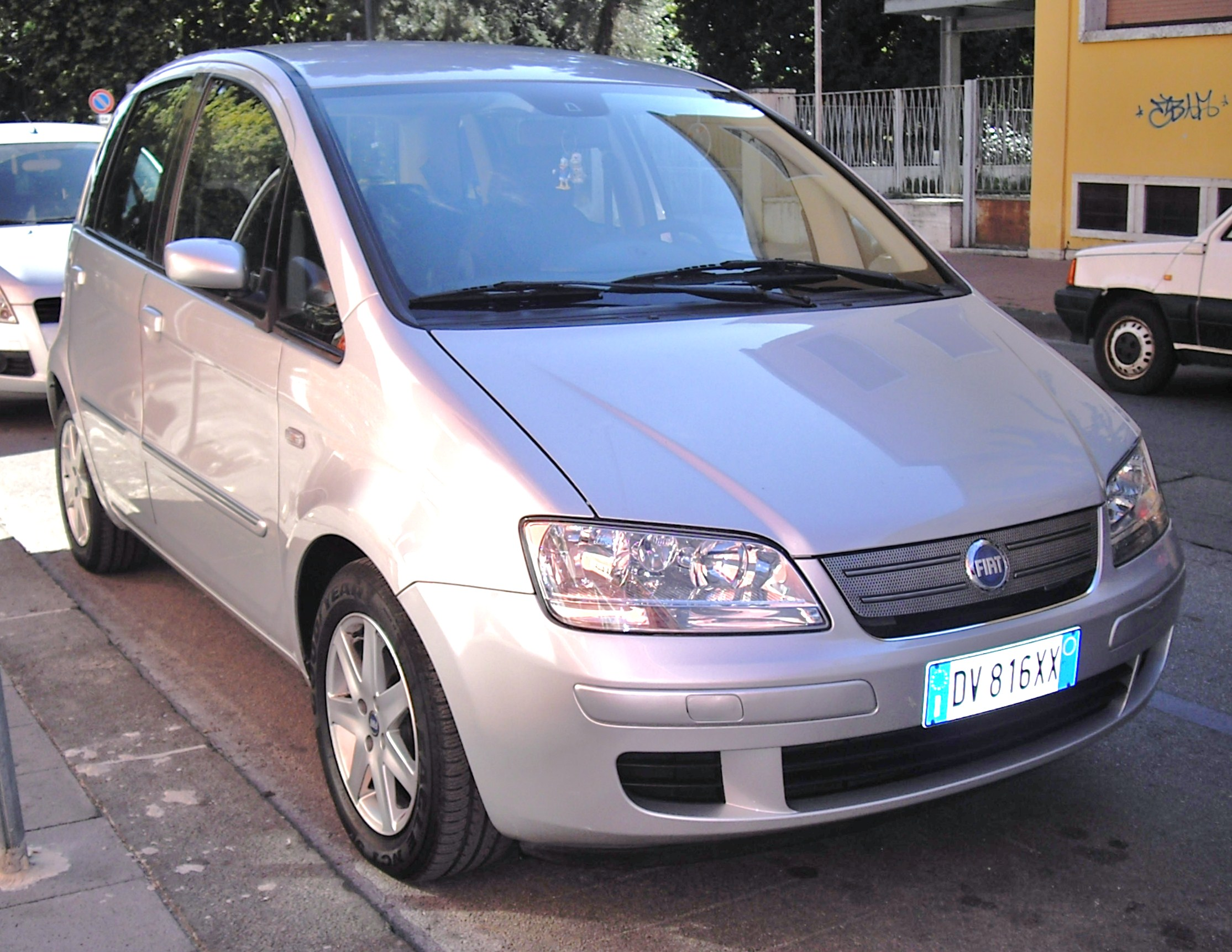 Fiat Idea